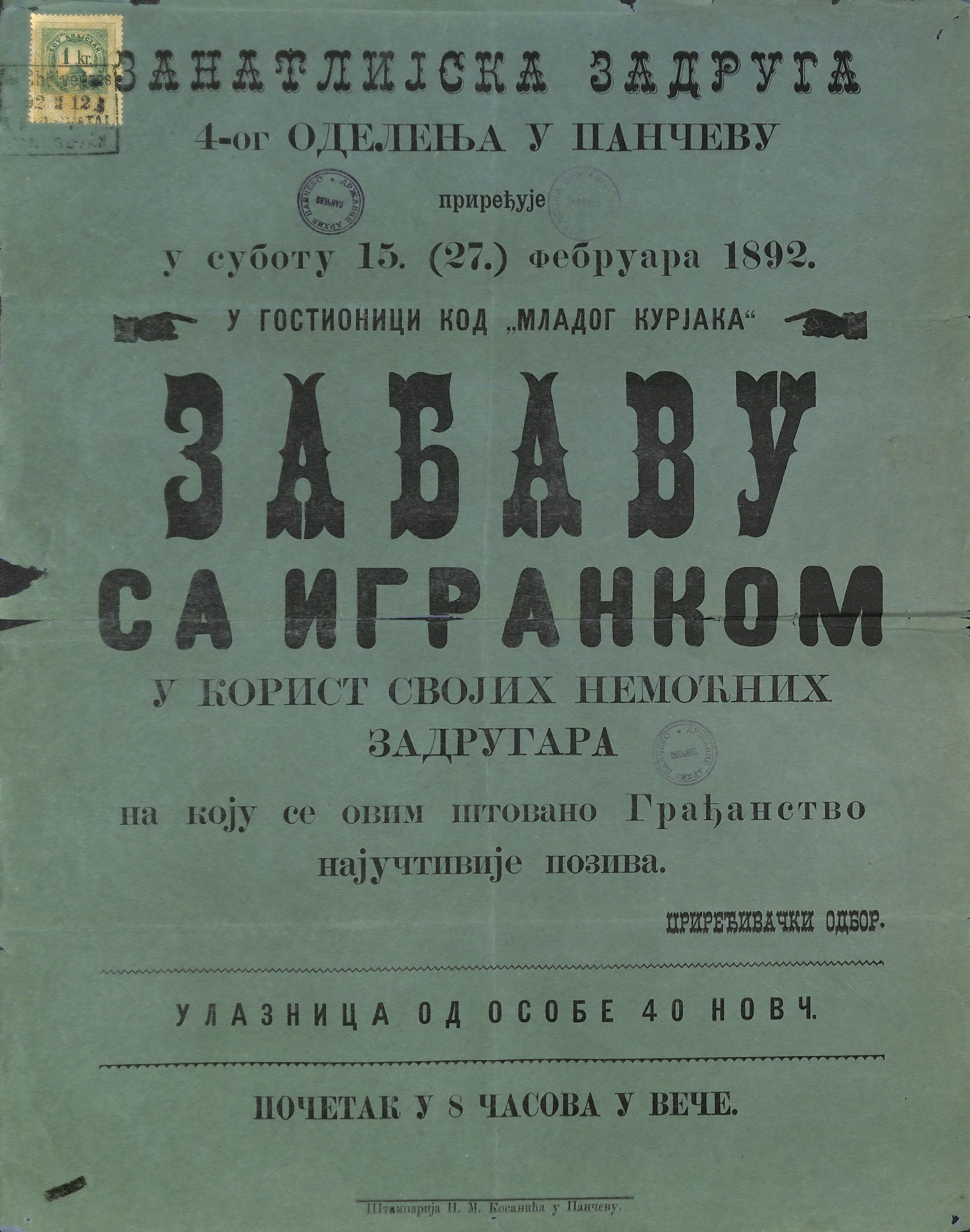 Poster by the crafts collective intended for charity party in Pančevo, February 27, 1892.